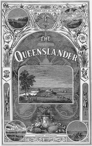 the cover of the 1879 Queenslander Magazine